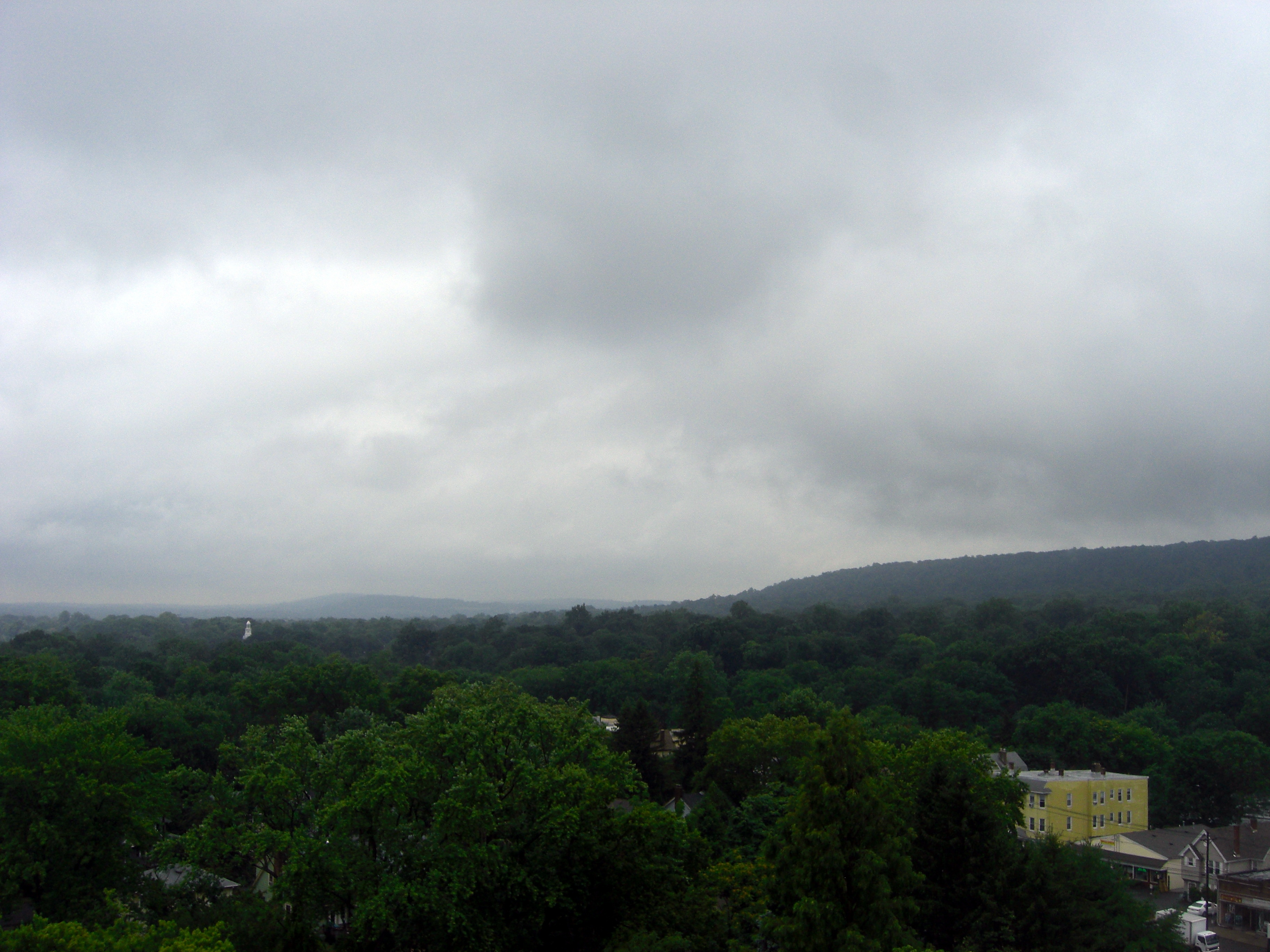 A view of Maplewood, NJ and surrounding areas from the Columbia High School clock tower.